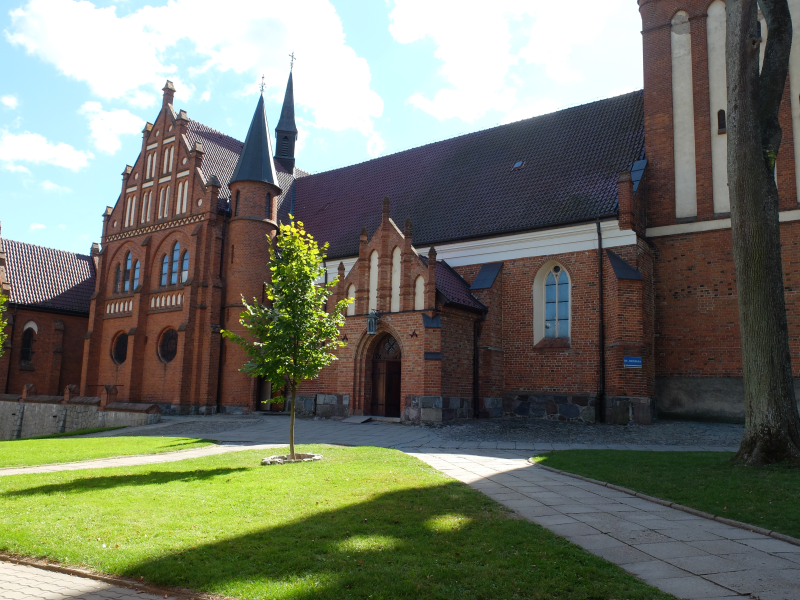 Basilica of the Nativity of the Virgin Mary in Gietrzwałd